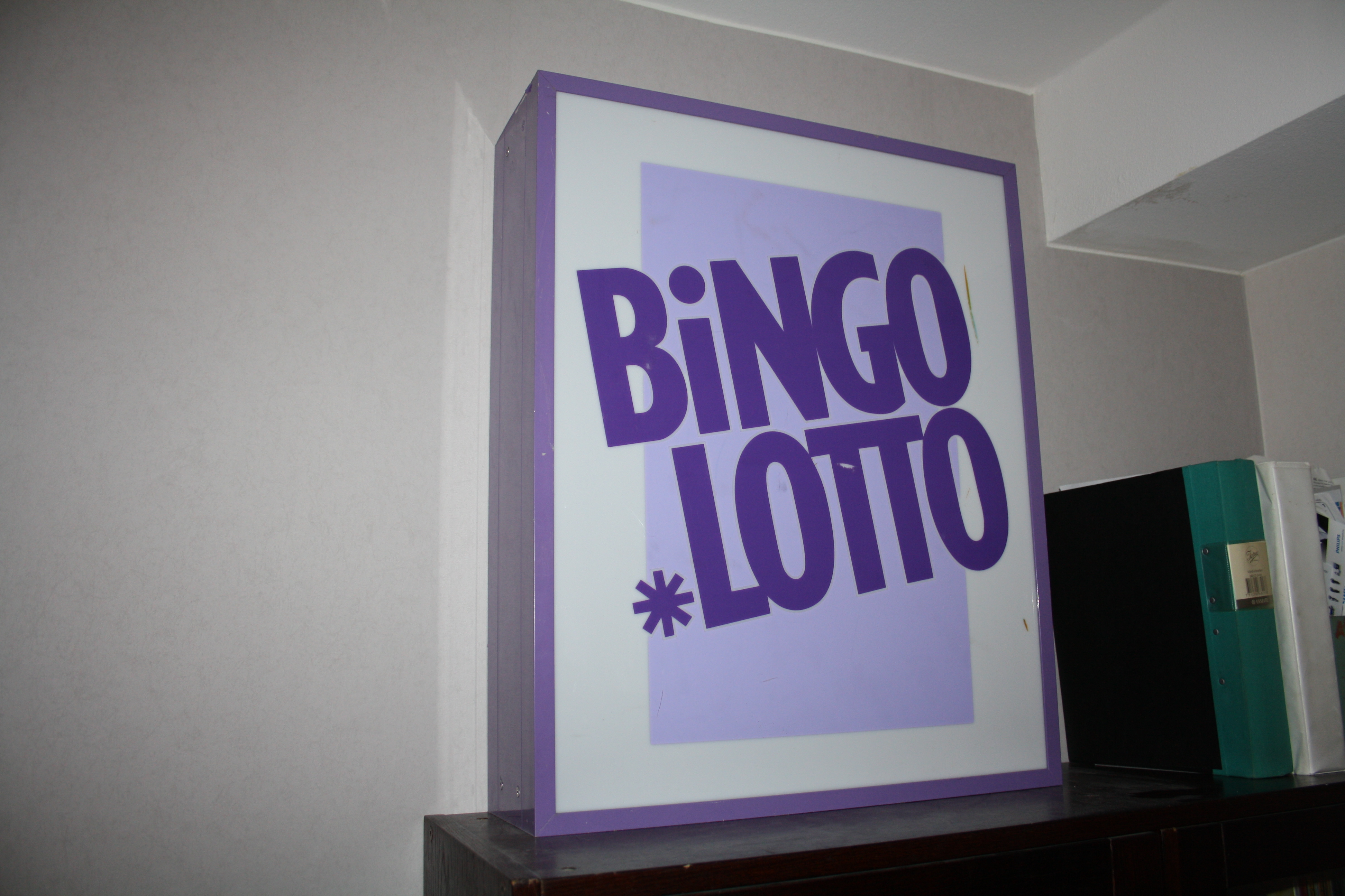 Bingolotto-sign